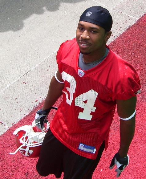 Tyron Brackenridge, defensive back with the Kansas City Chiefs.